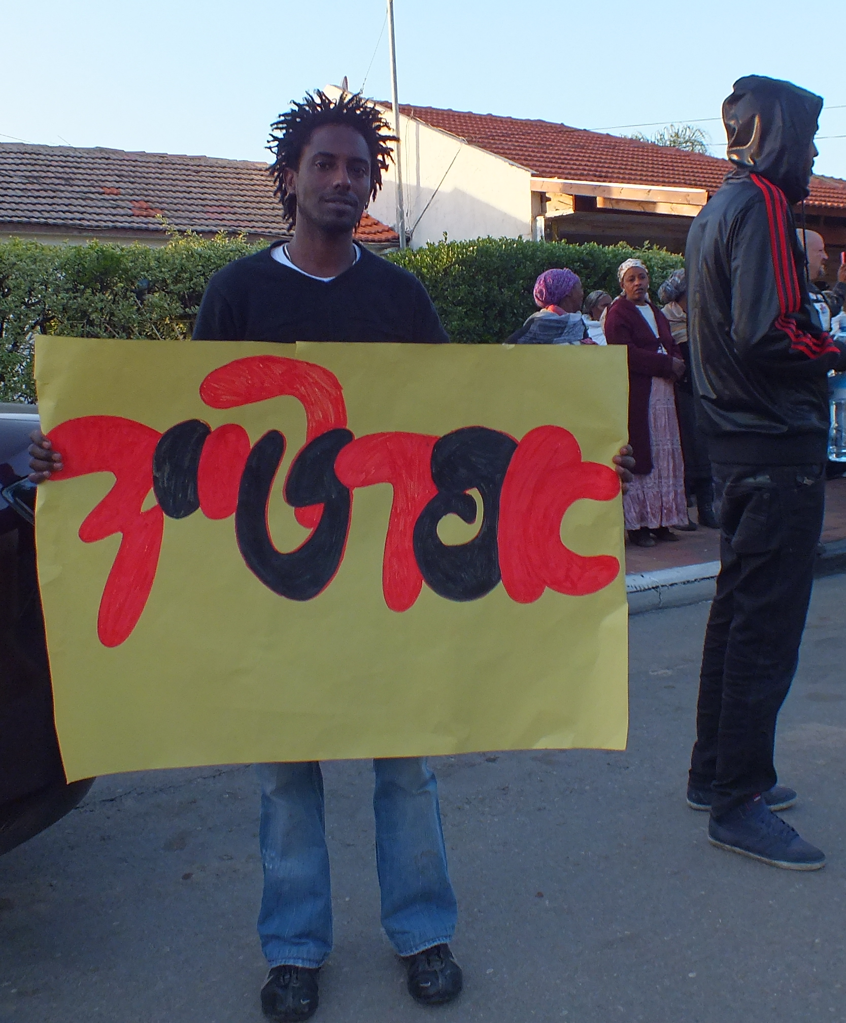 Young man of Jewish-Ethiopian descent holding a sign saying "Apartheid" (אפרטהייד) at a 2012 parade against the ethiopophobia in Israel.